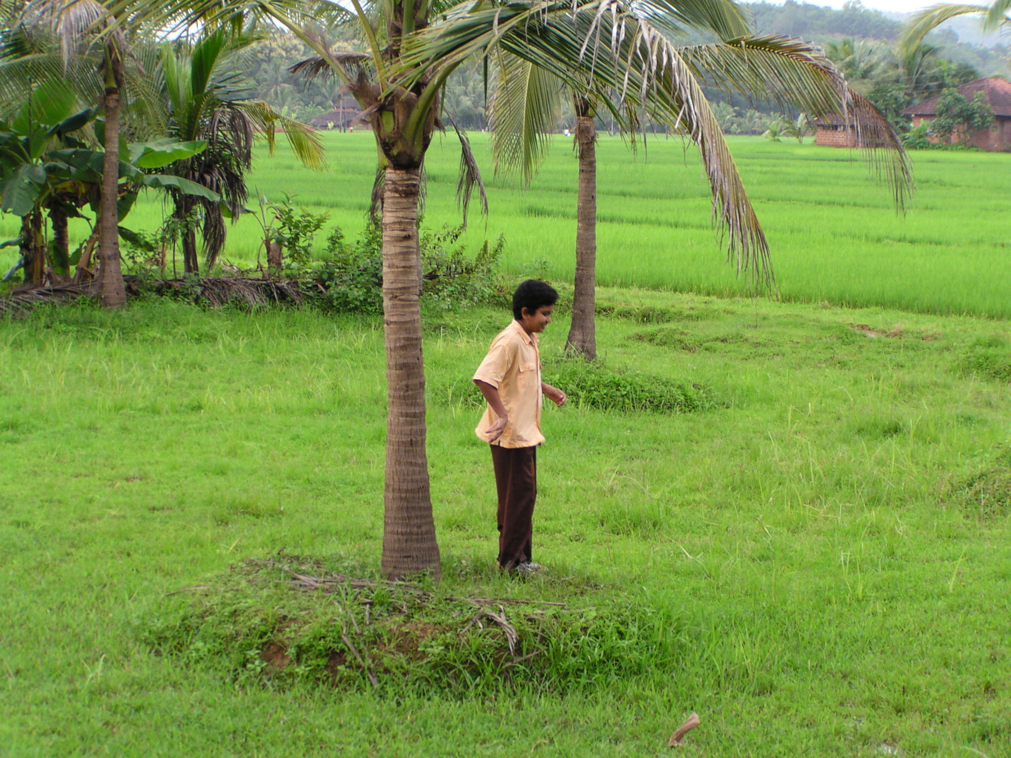 Taliparamba, Kannur district, Kerala province, India.